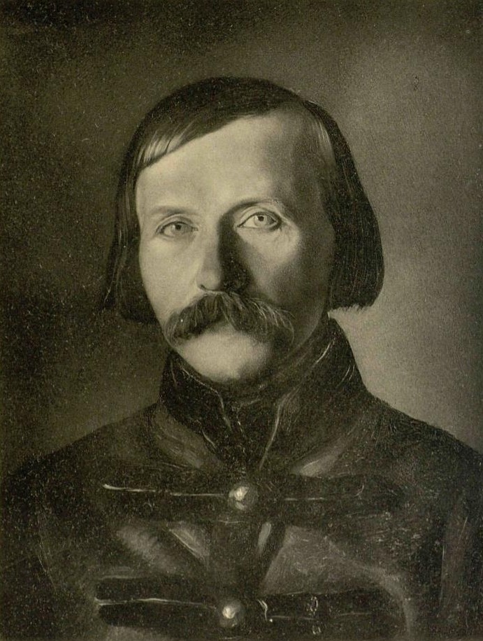 Pyotr Kireevsky